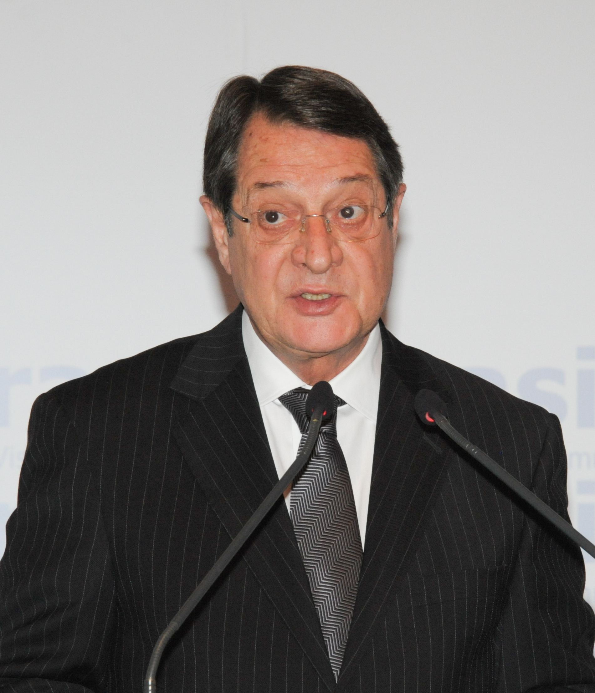 Horasis Global Russia Business Meeting, Limassol, 14-15 April